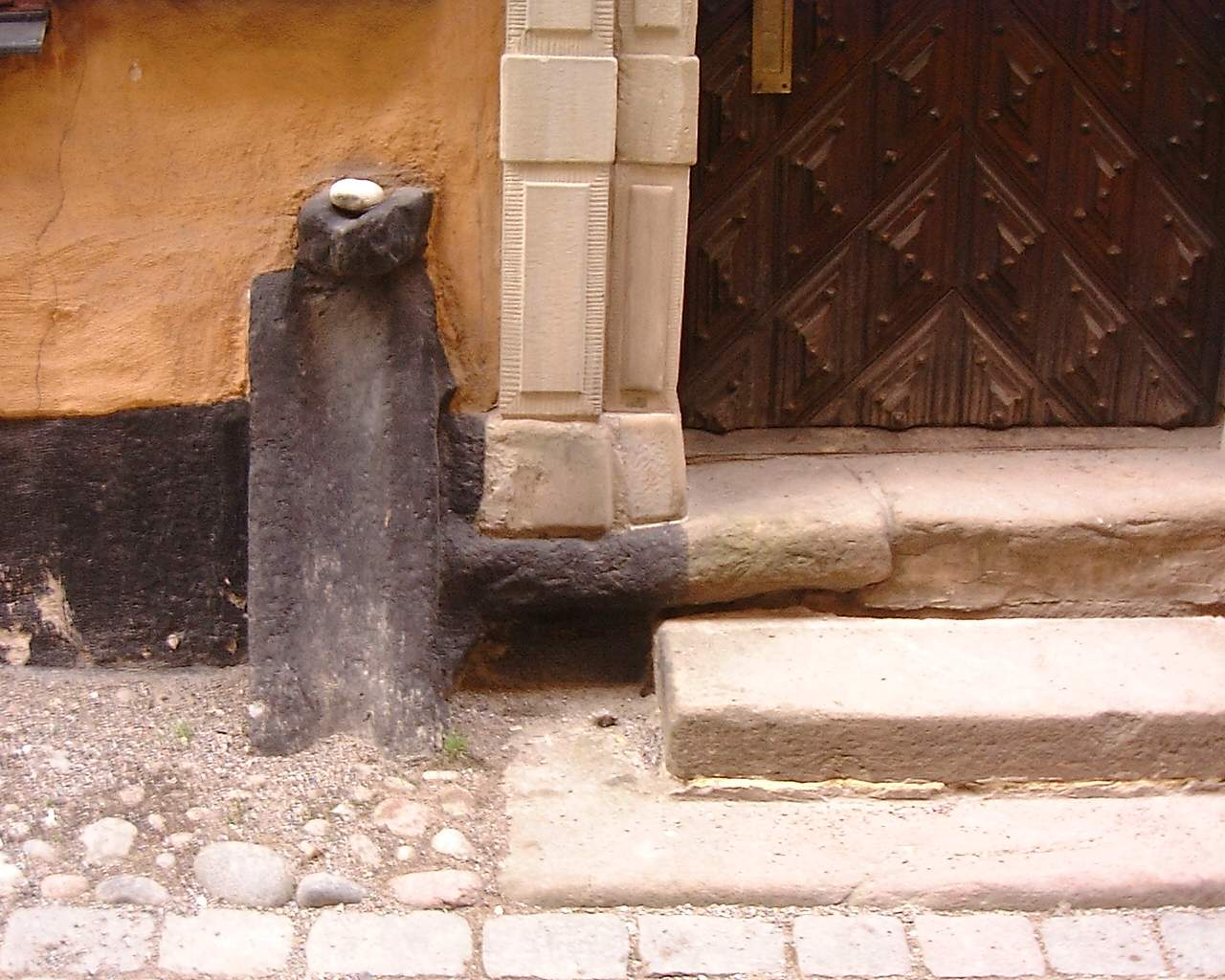 A so called trumba (e.g. a medieval waste pipe) at 2, Nygränd, Gamla stan, Stockholm